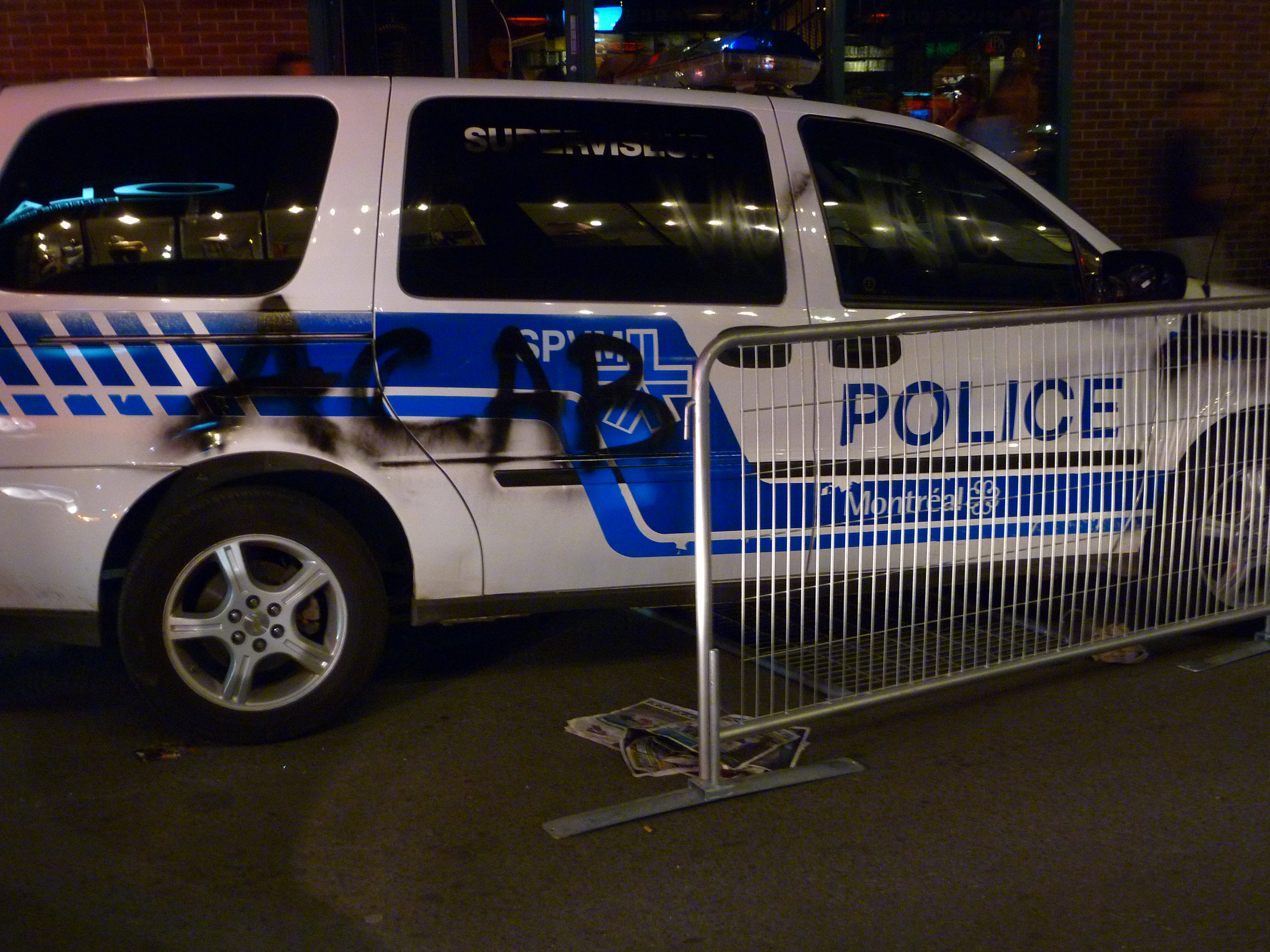 A Montreal Police car defaced with the slogan "ACAB" during the 2012 Quebec student protests.